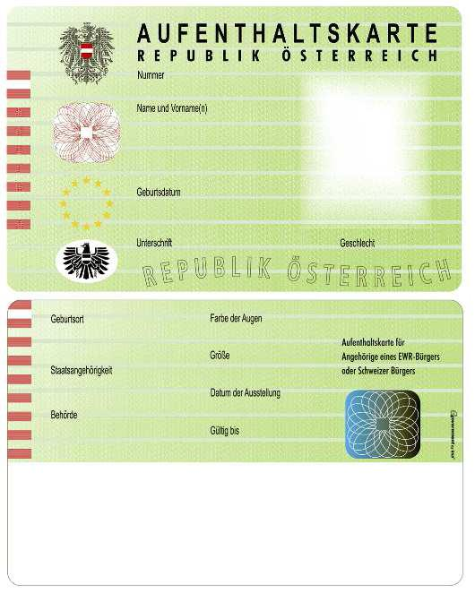 Residence card (Austria)